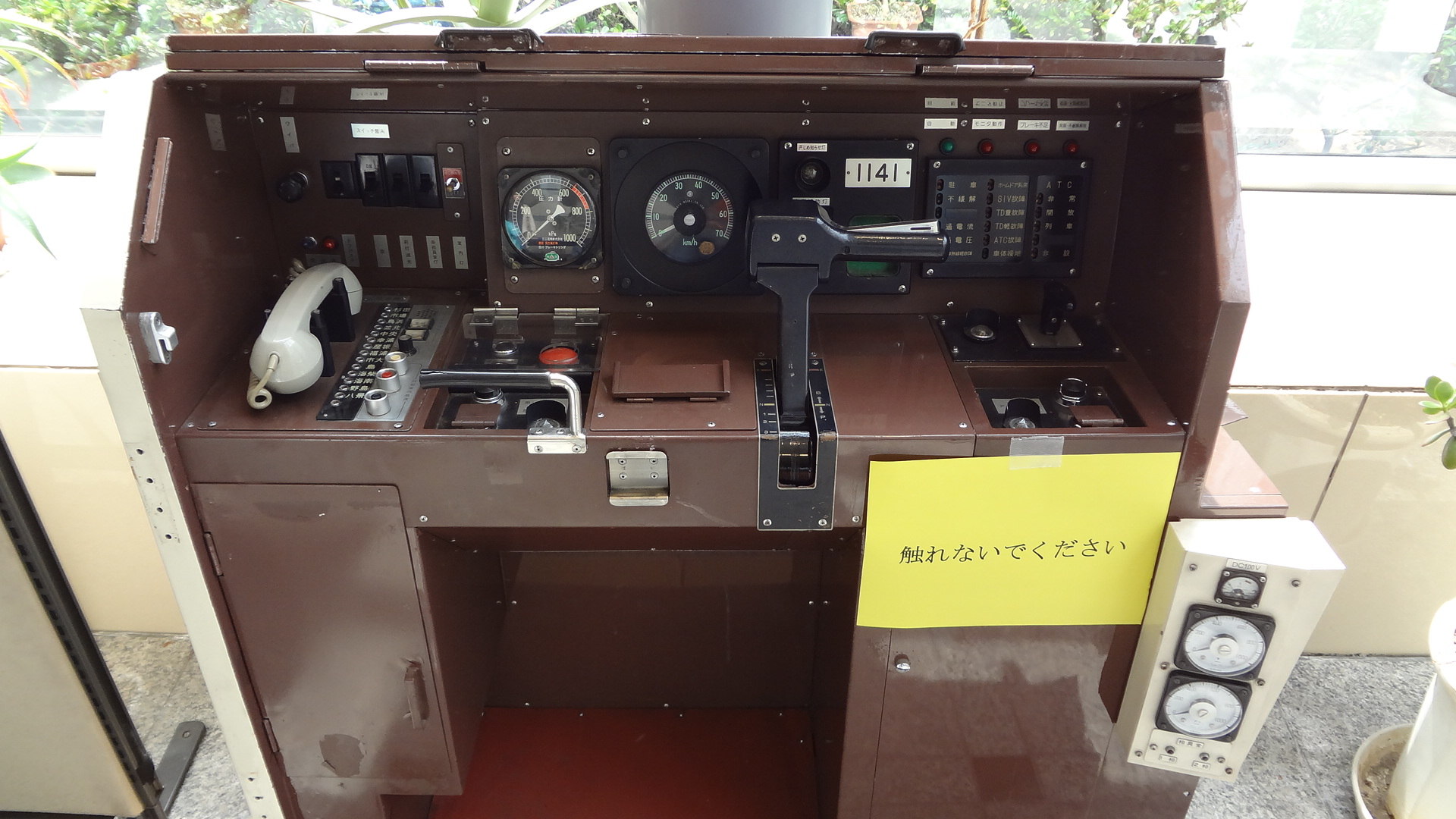 Controller of Yokohama New transit Kanazawa Seaside Line 1000 series.